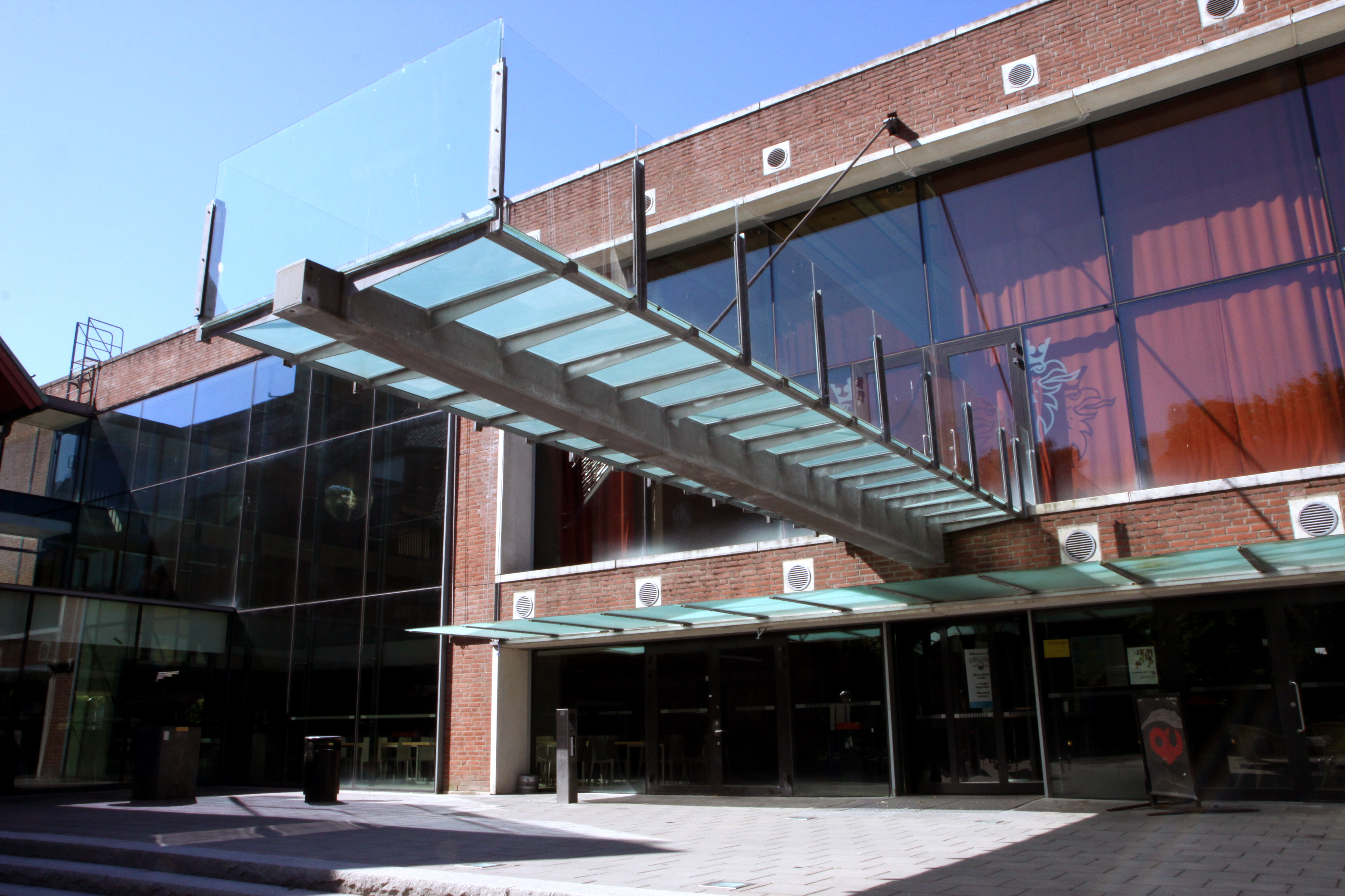 Side of Chalmers kårhus with entrance and balcony.